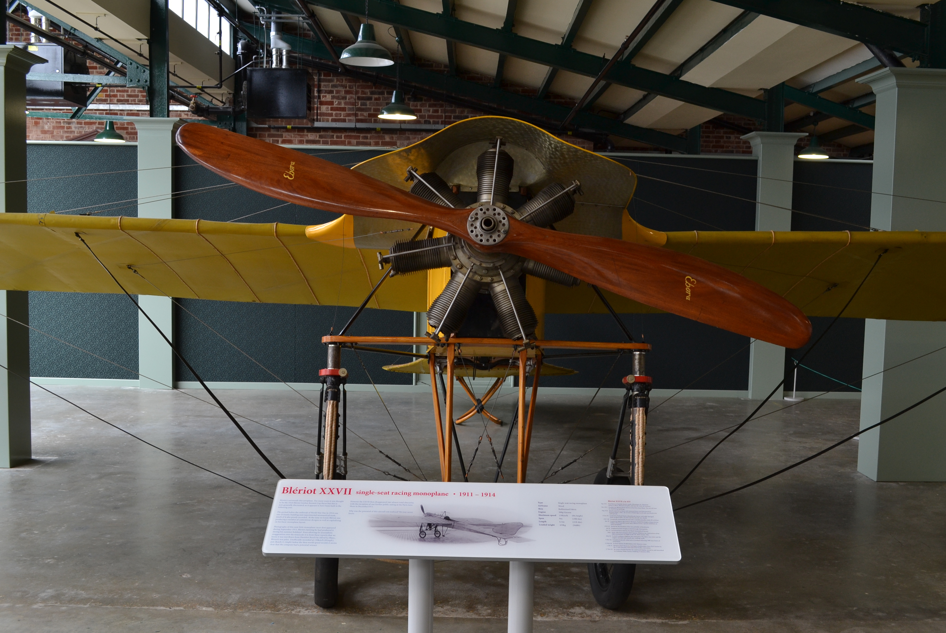 Blériot XXVII on display at the RAF Museum Hendon.